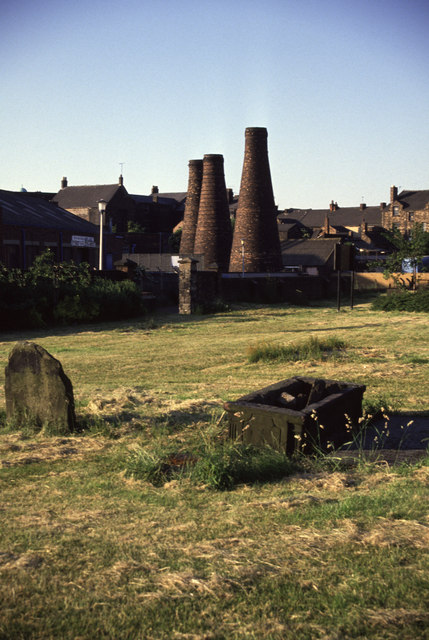 Acme Marls, Bournes Bank, Burslem